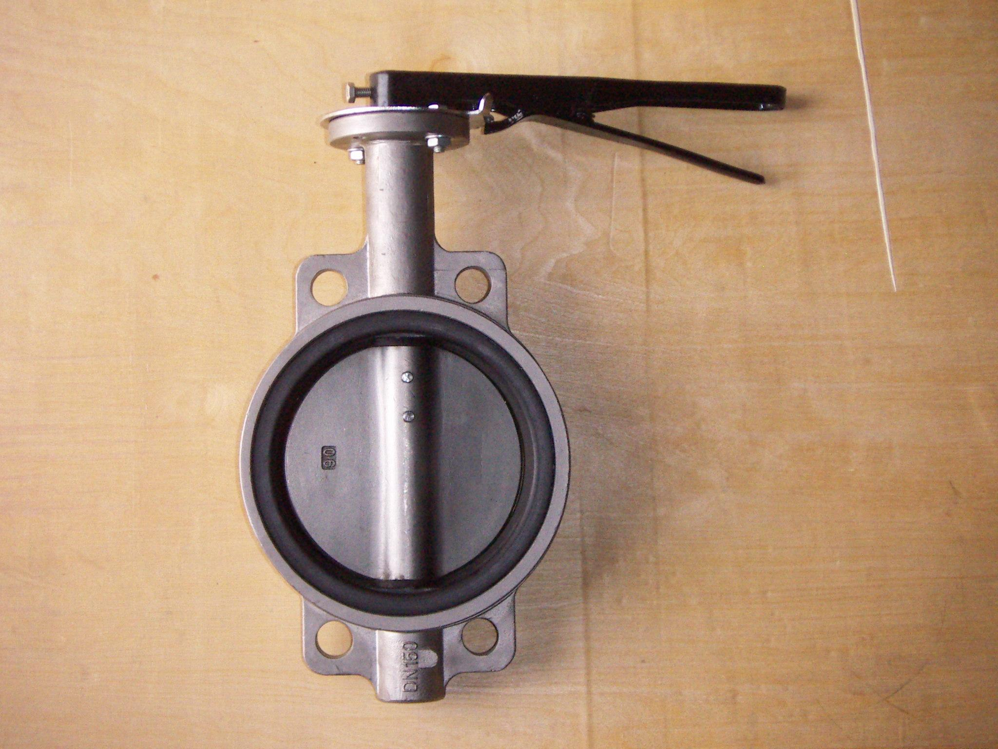 Duplex valve. Duplex valves, made of A182 F51 forged duplex or A995 5A cast duplex are corrosion resistant and are particularly used in seawater applications.